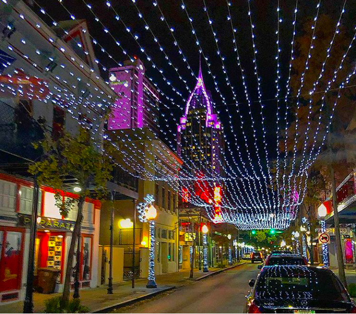 Dauphin Street in Mobile, Alabama.